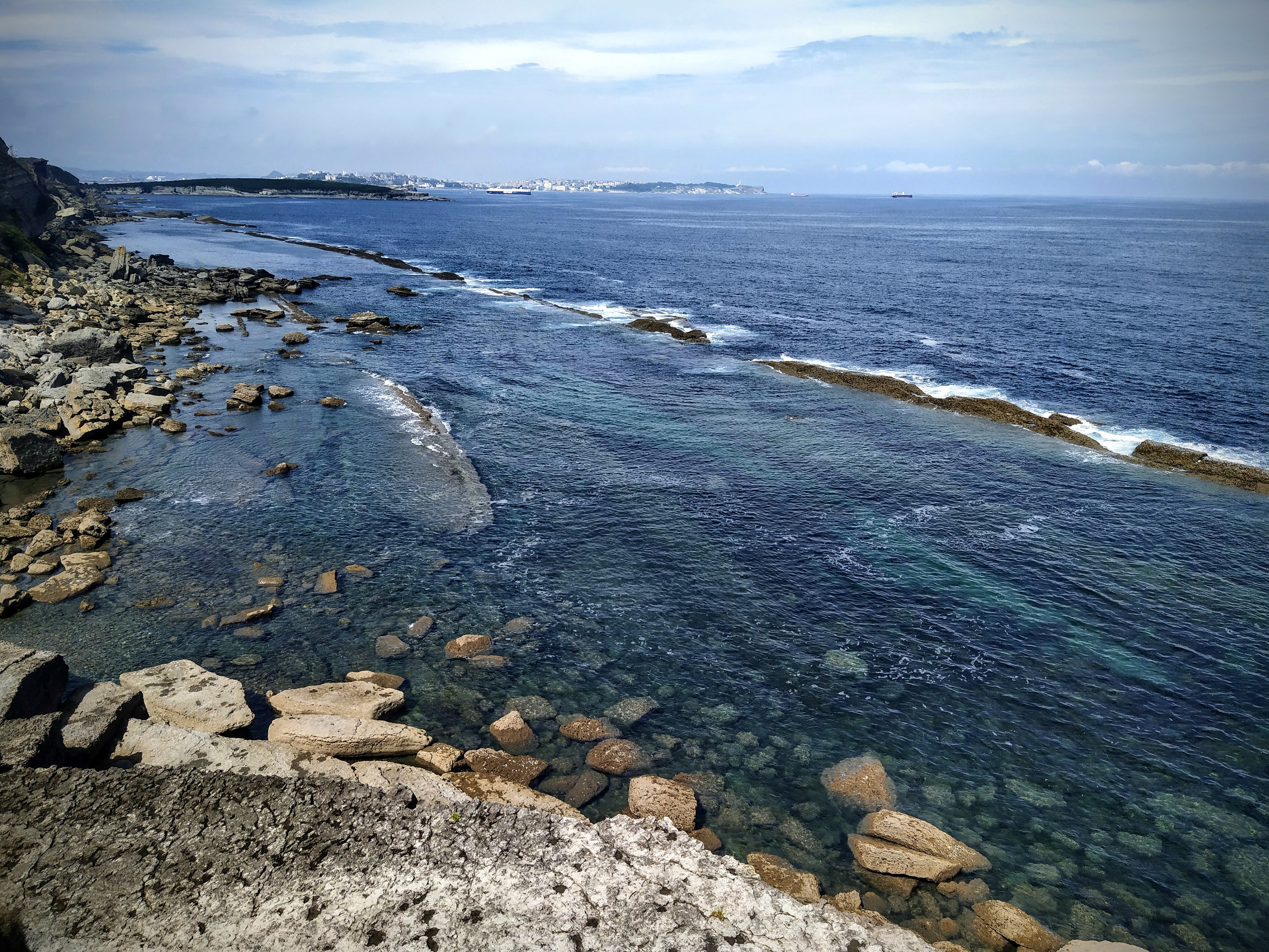 The Pozas de Langre, or Pozas de Llaranza, are natural pools between the cliffs located in the municipality of Ribamontán al Mar, in Cantabria (Spain).